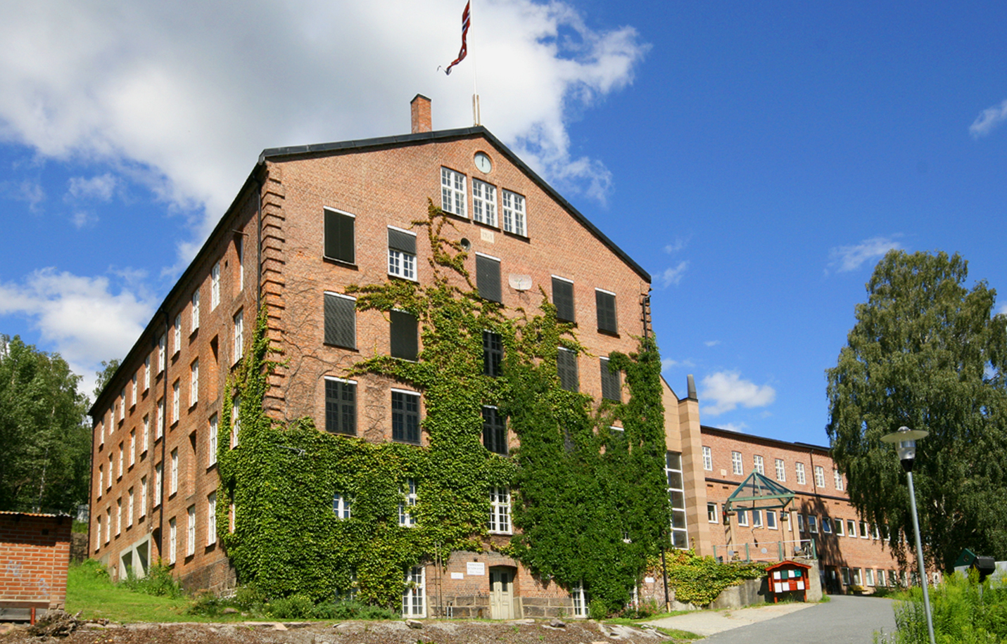 The weaving mill at Solberg Spinderi, Nedre Eiker, Norway. Closed down 2006.